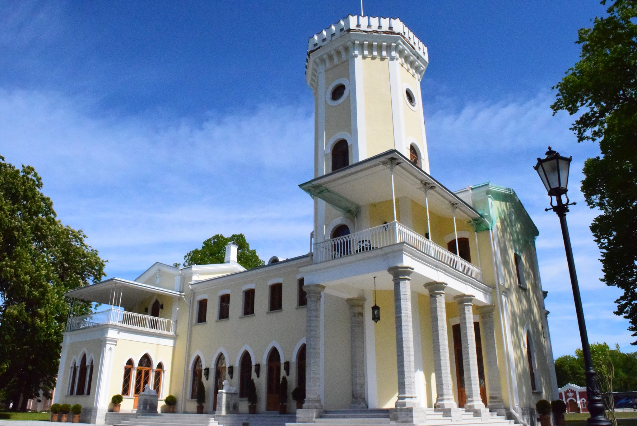 Keila-Joa manor in 2015